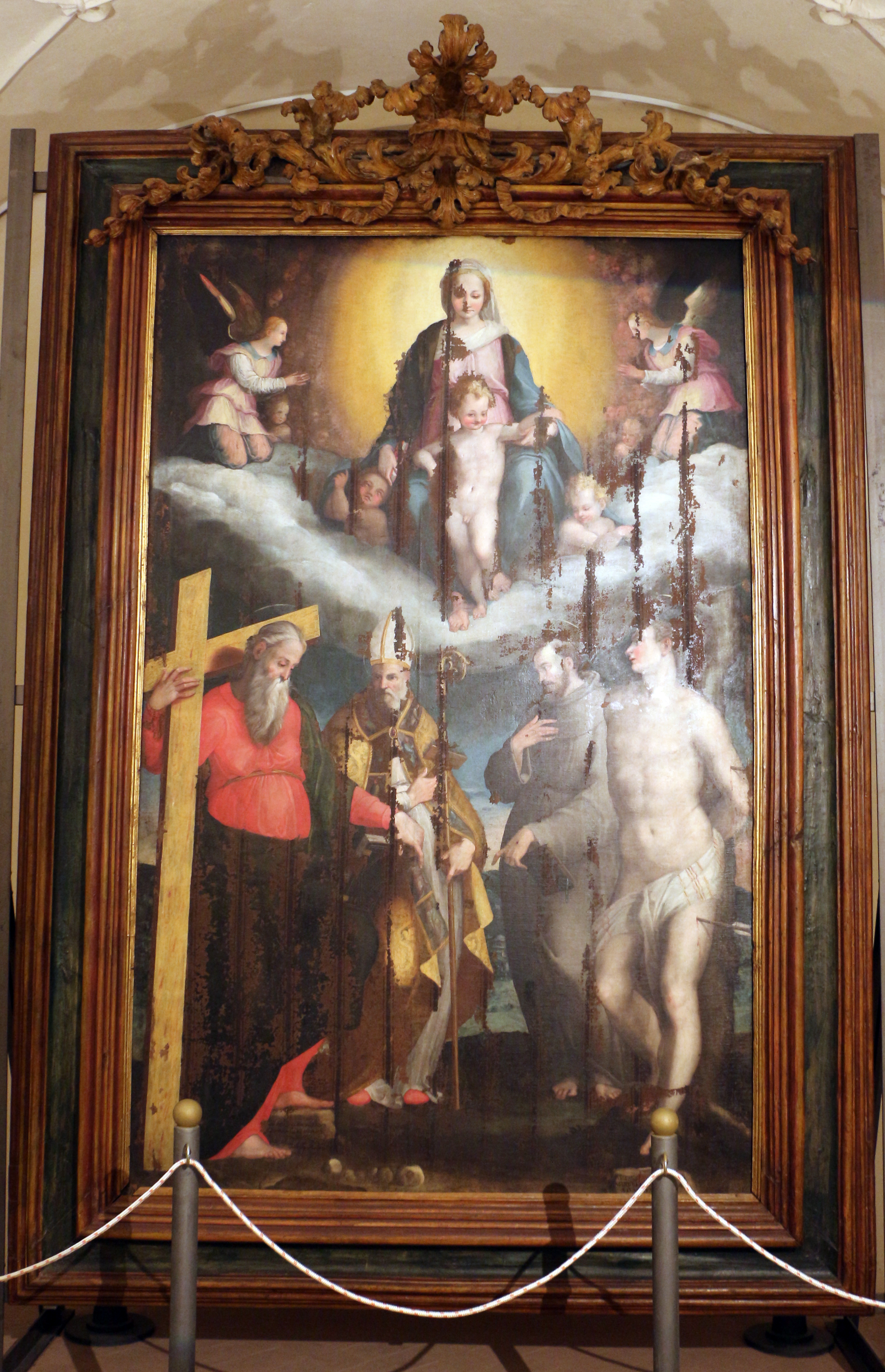 Santa Croce (Umbertide)